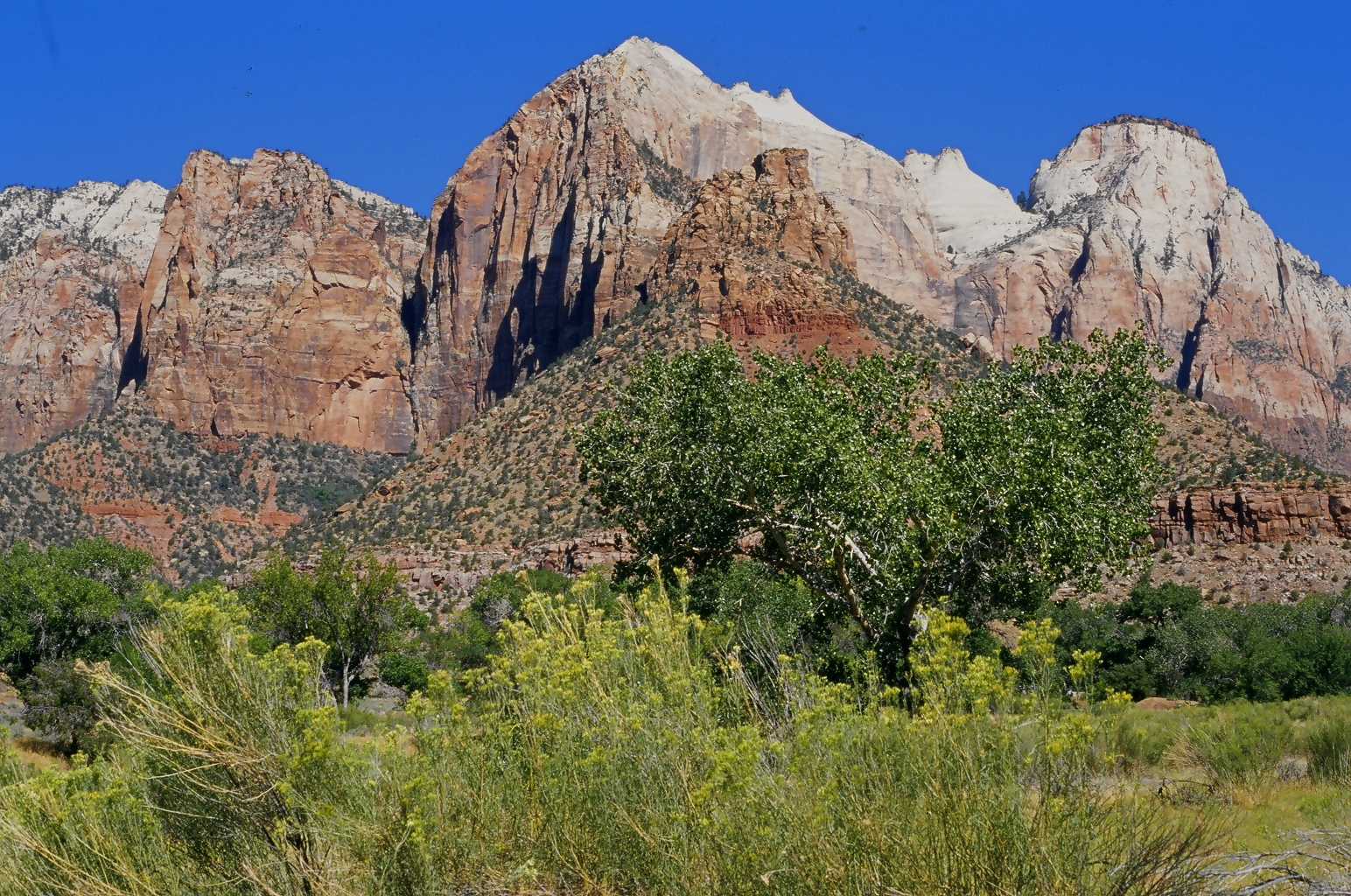 Zion National Park's Bee Hive Peak and The Sentinel